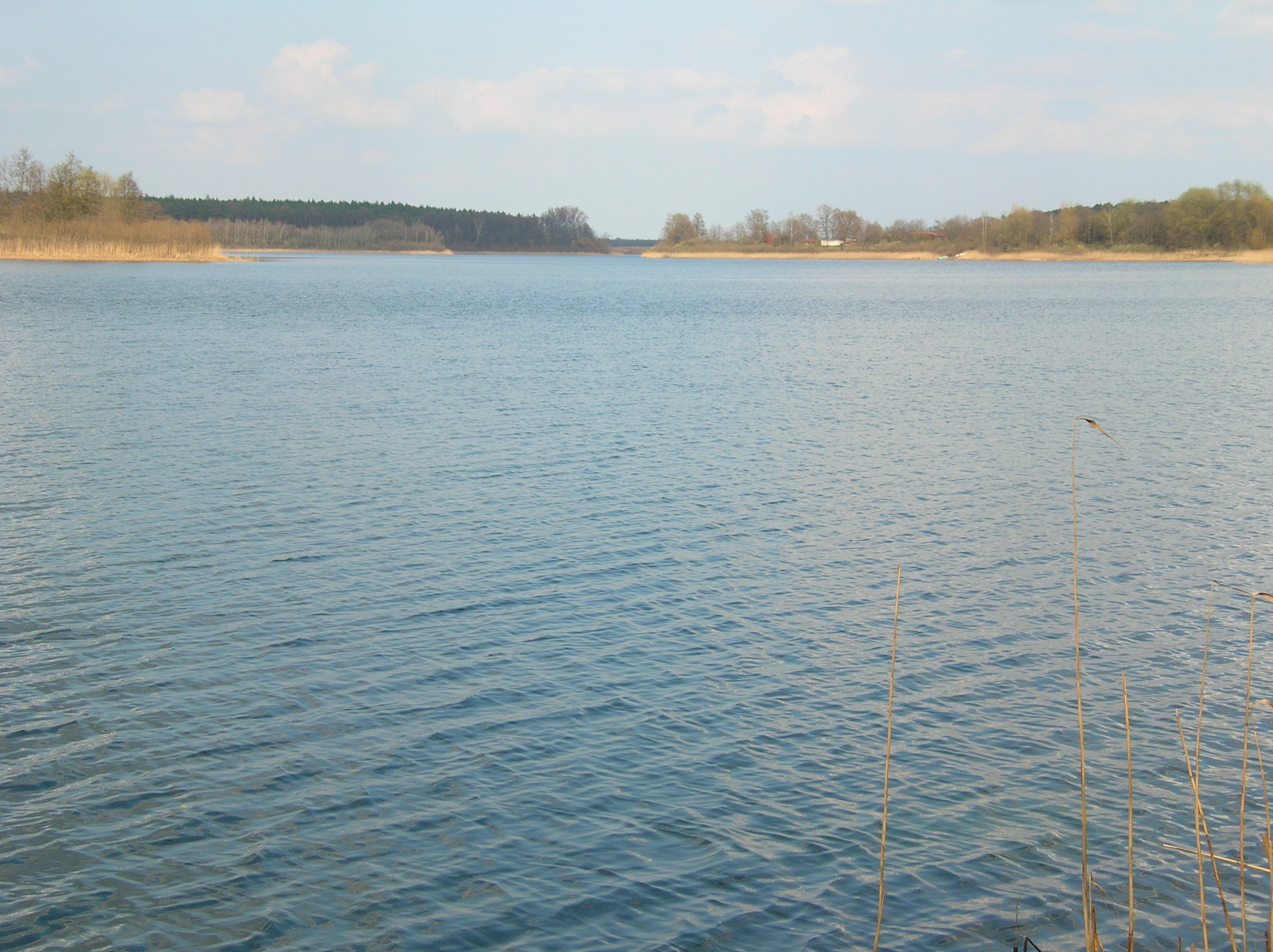 Kownackie Lake near Mrówki village